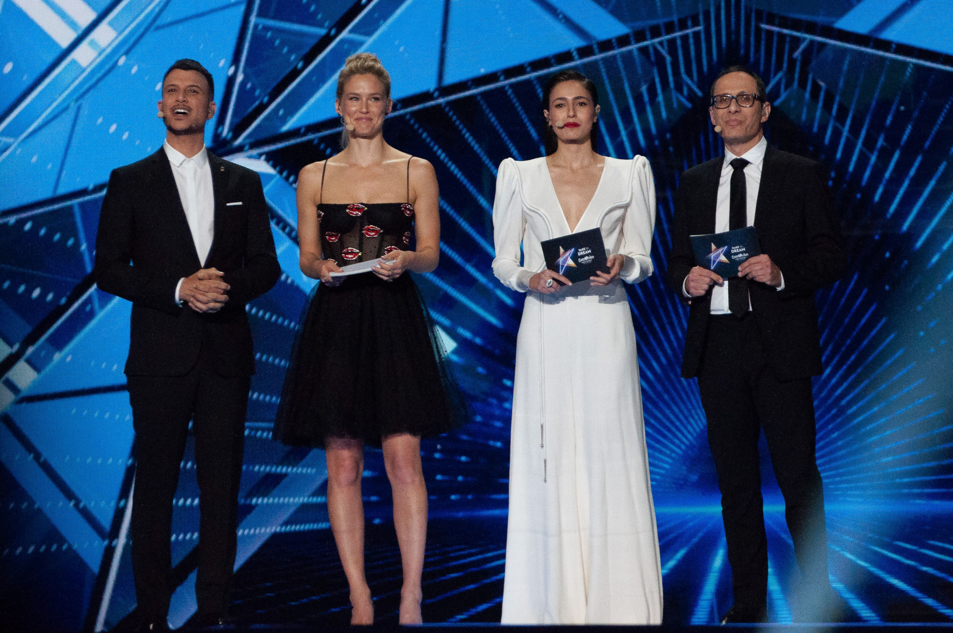 Hosts during a rehearsal before the second semi-final of the Eurovision Song Contest 2019 in Tel-Aviv.